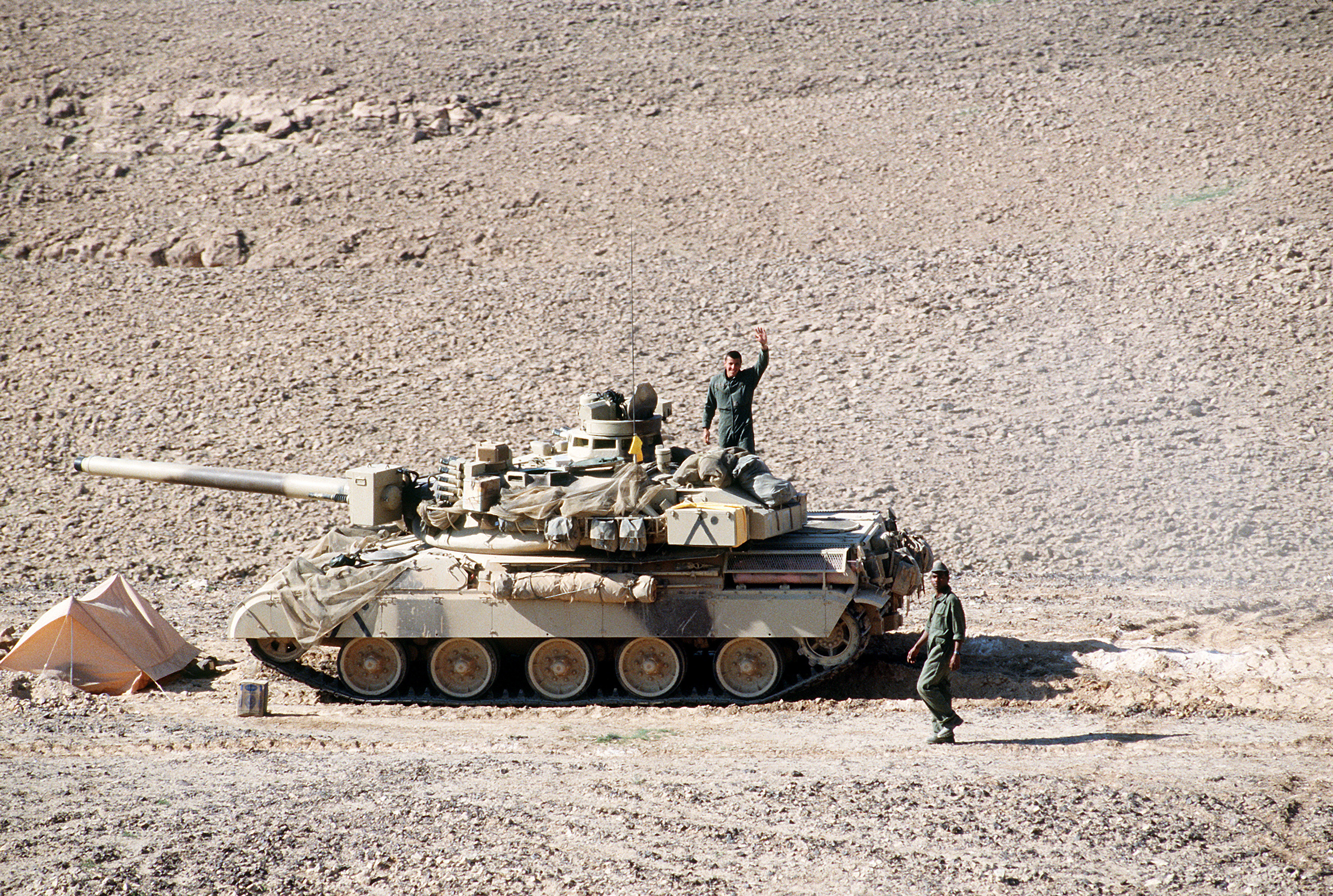 A crew member waves to the camera from the back of his AMX-30 main battle tank of the French Division Daguet bivouacked near Al-Salman during Operation Desert Storm.